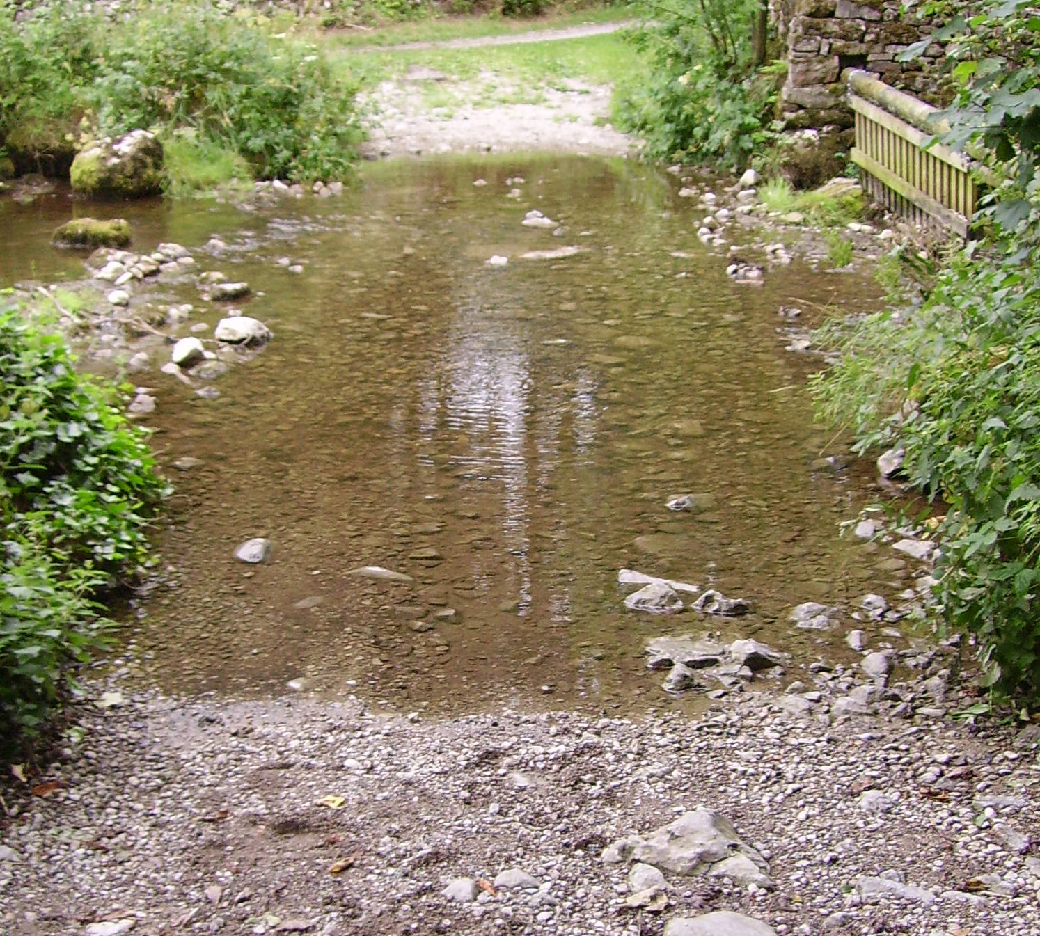 ford in Malham in the Yorkshire Dales, United Kingdom